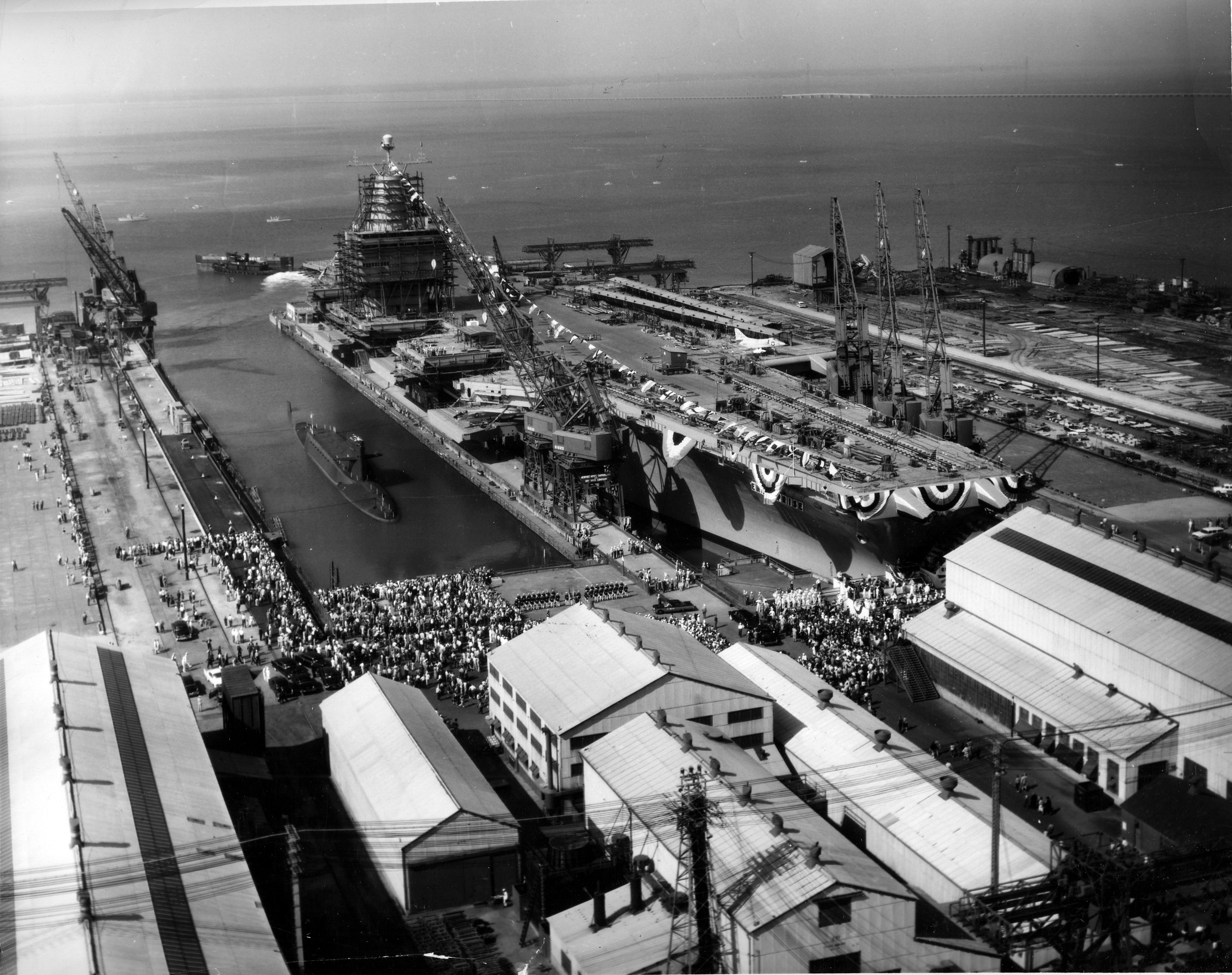 View of the christening of the U.S. Navy aircraft carrier USS Enterprise (CVAN-65) at the Newport News Shipbuilding and Drydock Company, Newport News, Virginia (USA) on Saturday, 24 September 1960. Enterprise was sponsored by Mrs. William B. Franke, wife of the U.S. Secretary of the Navy. Note the ballistic missile submarine USS Robert E. Lee (SSBN-601) to the left and the Douglas A4D-2 Skyhawk borrowed from Carrier Air Group 8 on deck of the Big E.